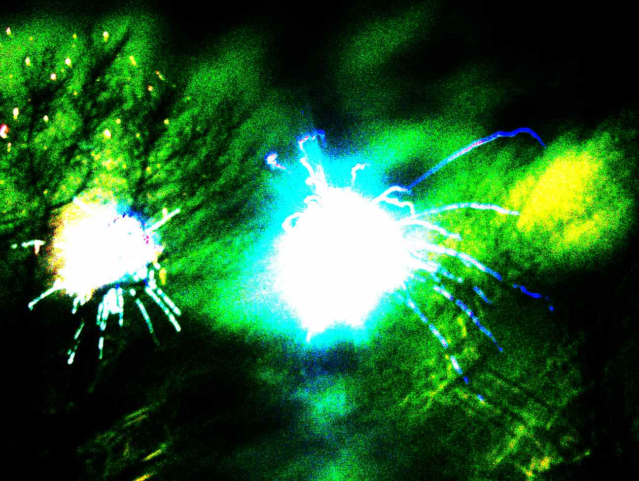 Computer animation to illustrate the light of the human soul